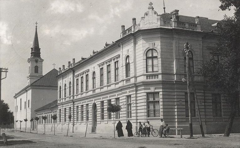 Bački Gračac village, Serbia, former Catholic Church.